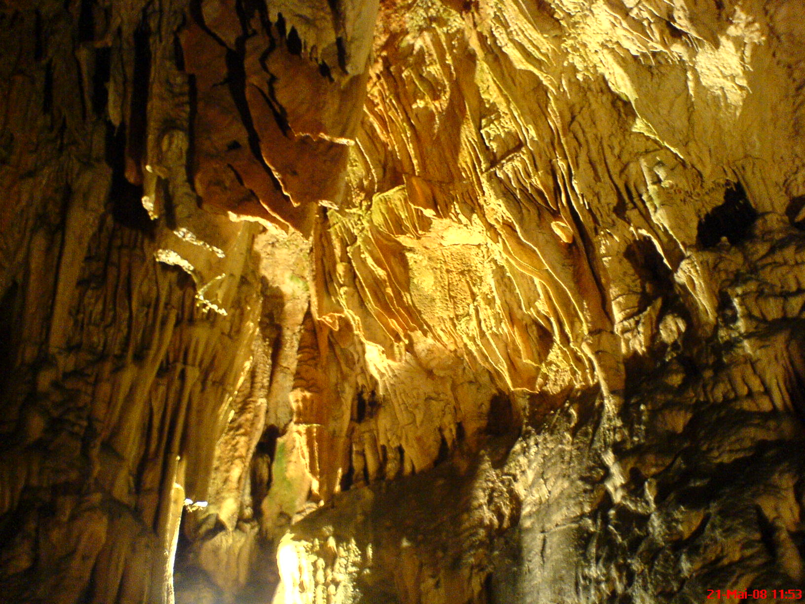 Roof of the cave Biserujka on the island of Krk.